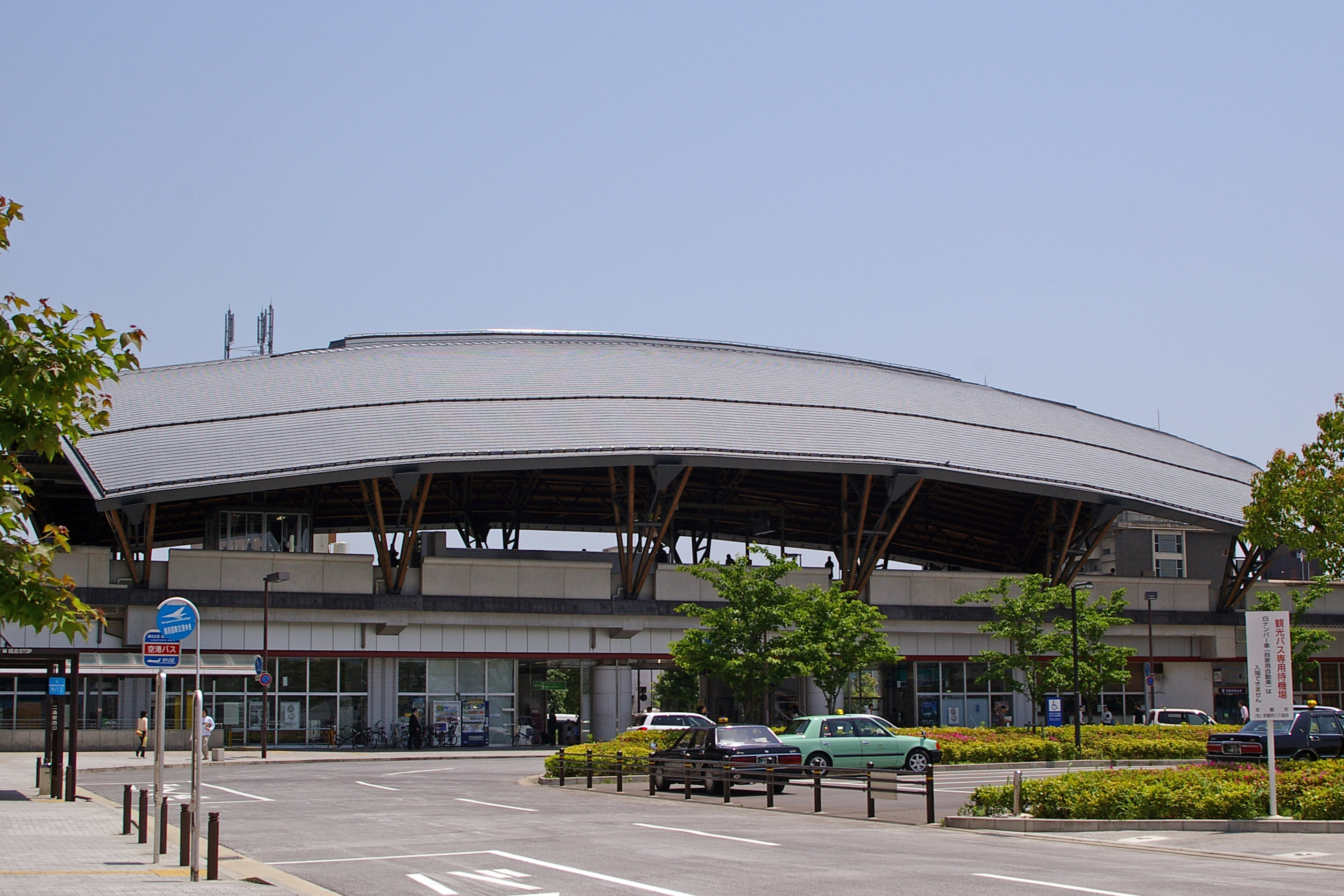 Photograph of Nijo Station of West Japan Railway Company in Nakagyo-ku, Kyoto, Kyoto Prefecture, Japan.